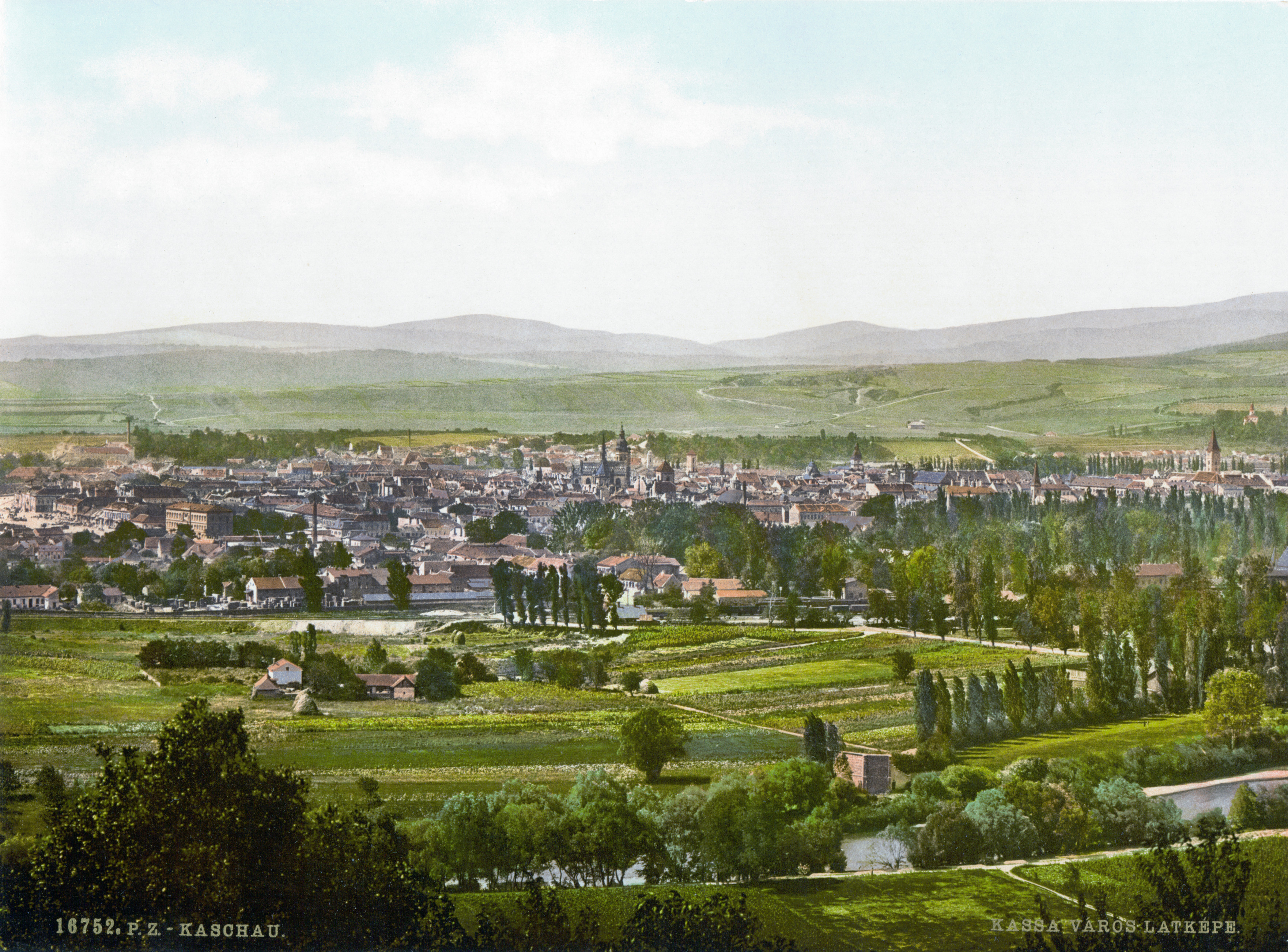 General view, Košice/Kaschau, Hungary, Austro-Hungary. Print no. "16752"